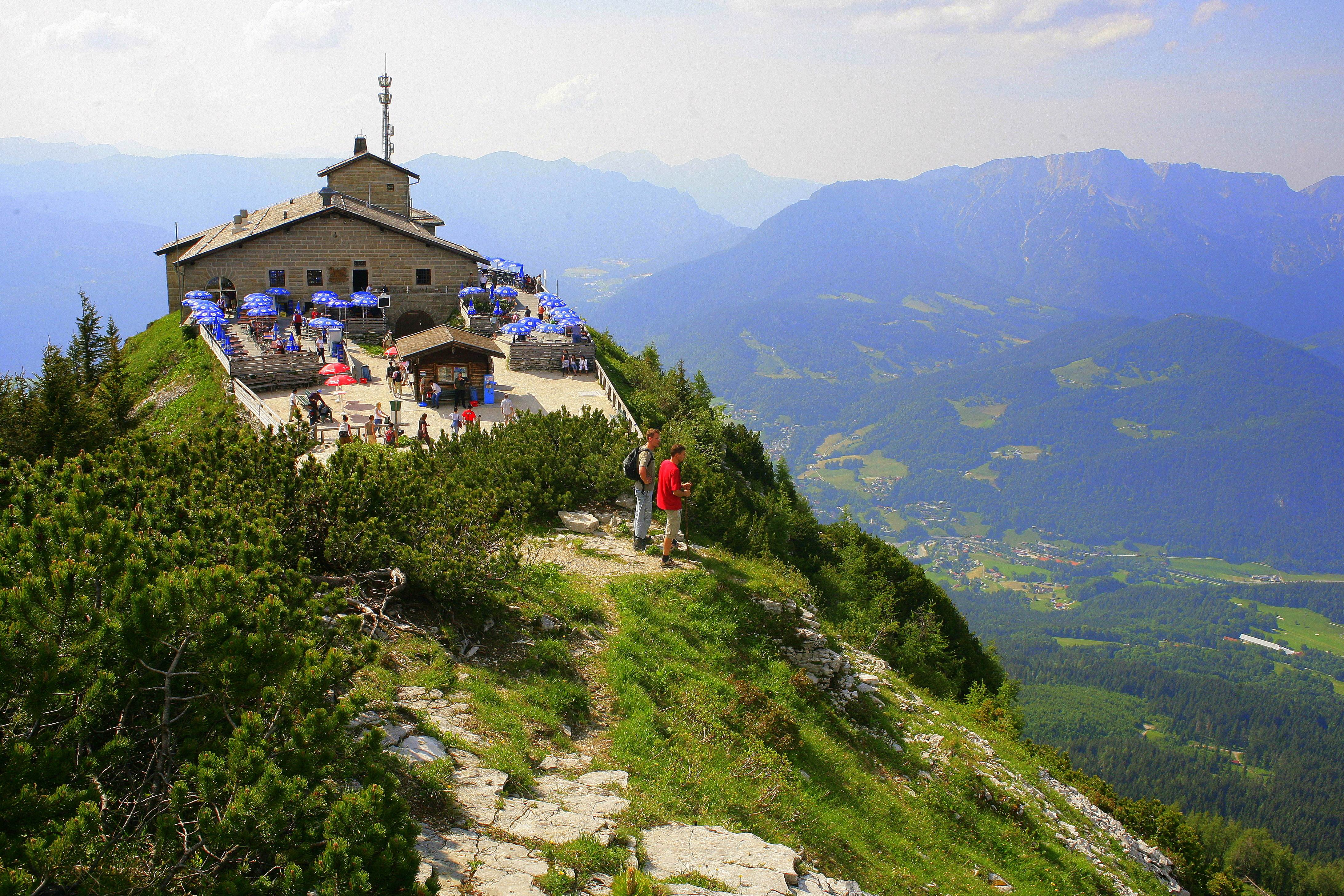 Eagle nest Berchtesgaden, Bavaria, Germany